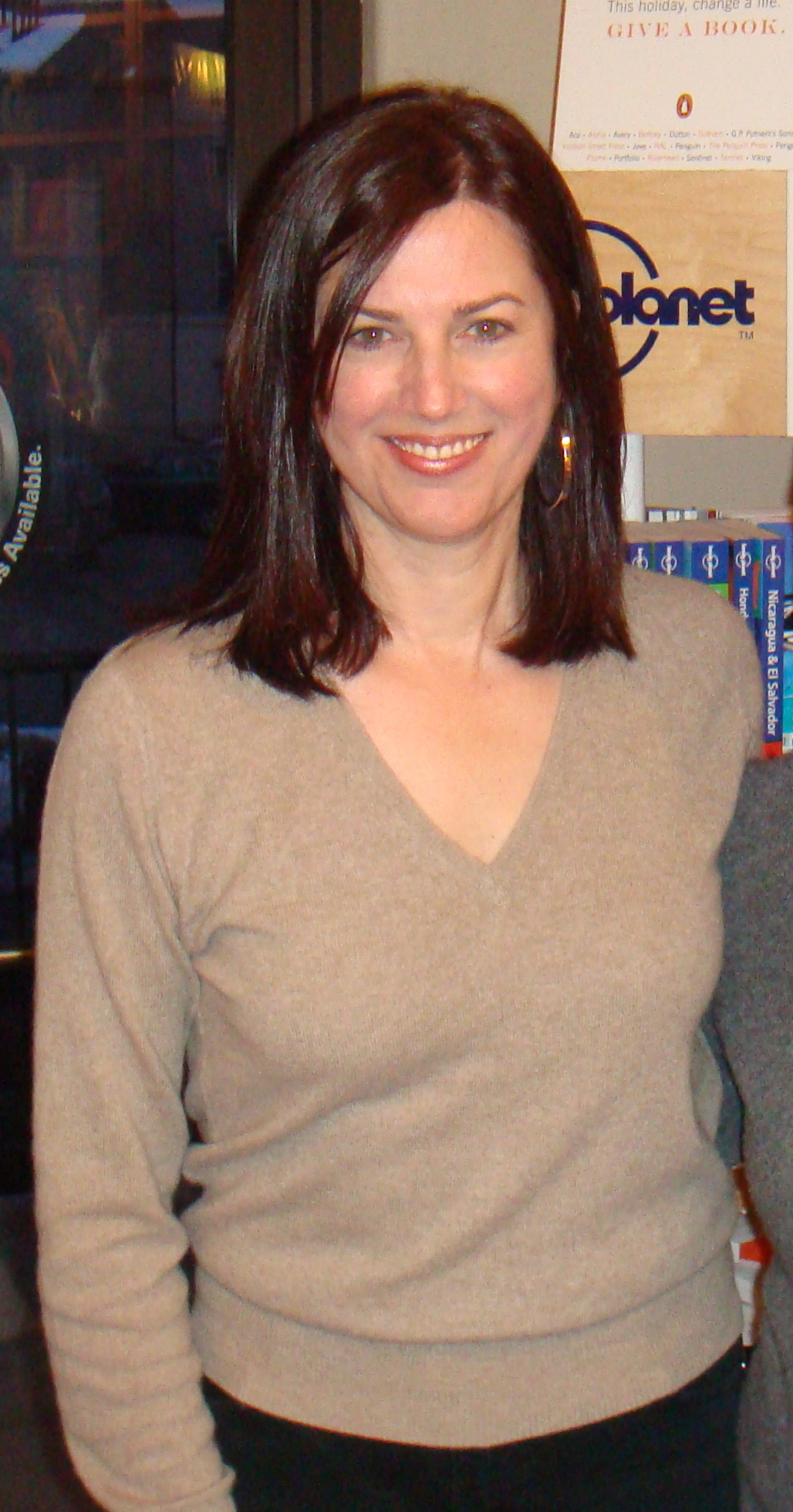 Photo of Meg Gardiner at a book signing at The Bookworm, in Edwards, Colorado, on Feb. 10, 2009